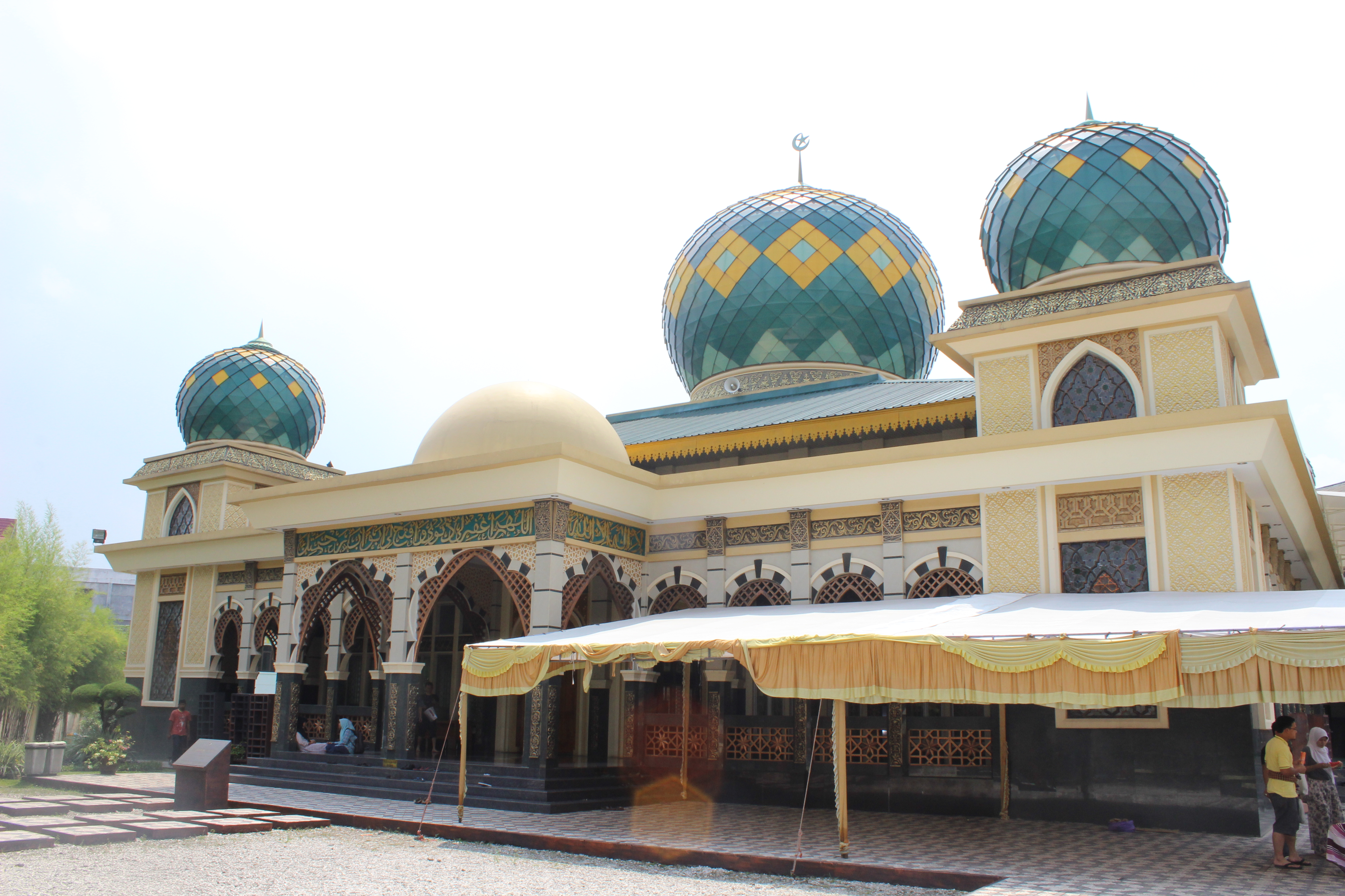 Masjid ar-Rahman, Pekanbaru.